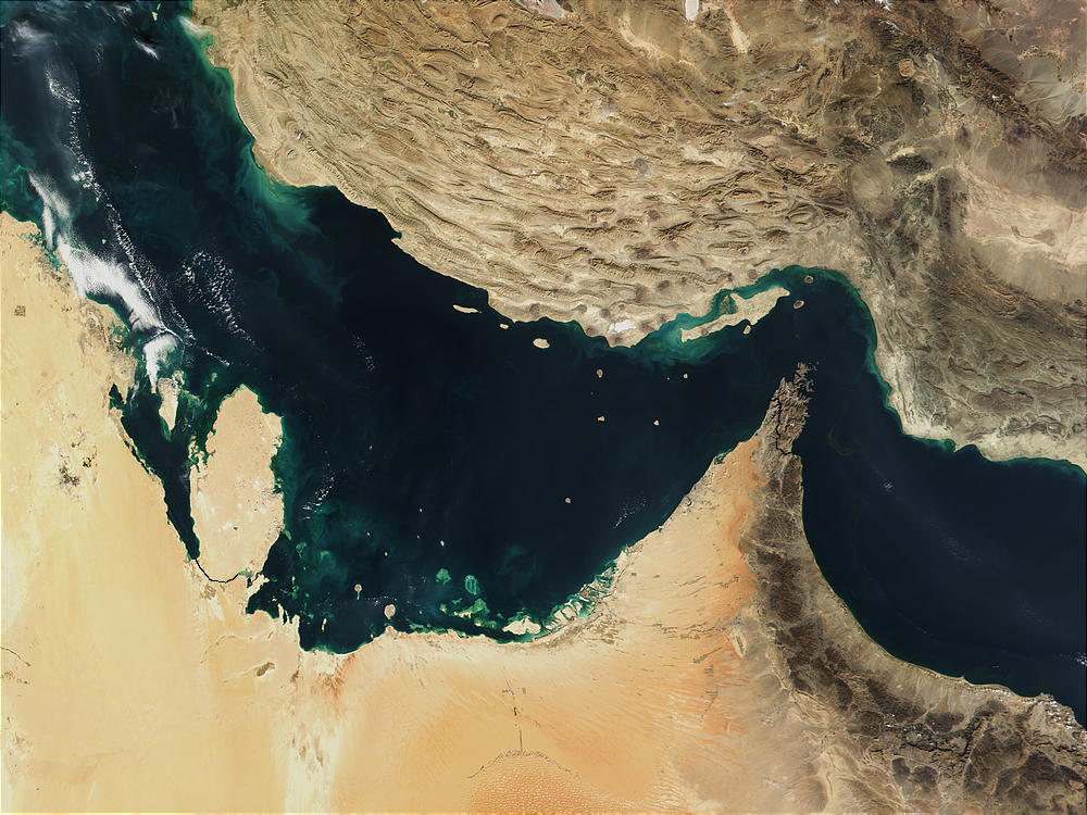 Horizontal Satellite image of the Persian Gulf provided by NASA. Reference Image initially obtained from Website commentary: Images are Public Domain: "All images are public domain and courtesy of NASA"